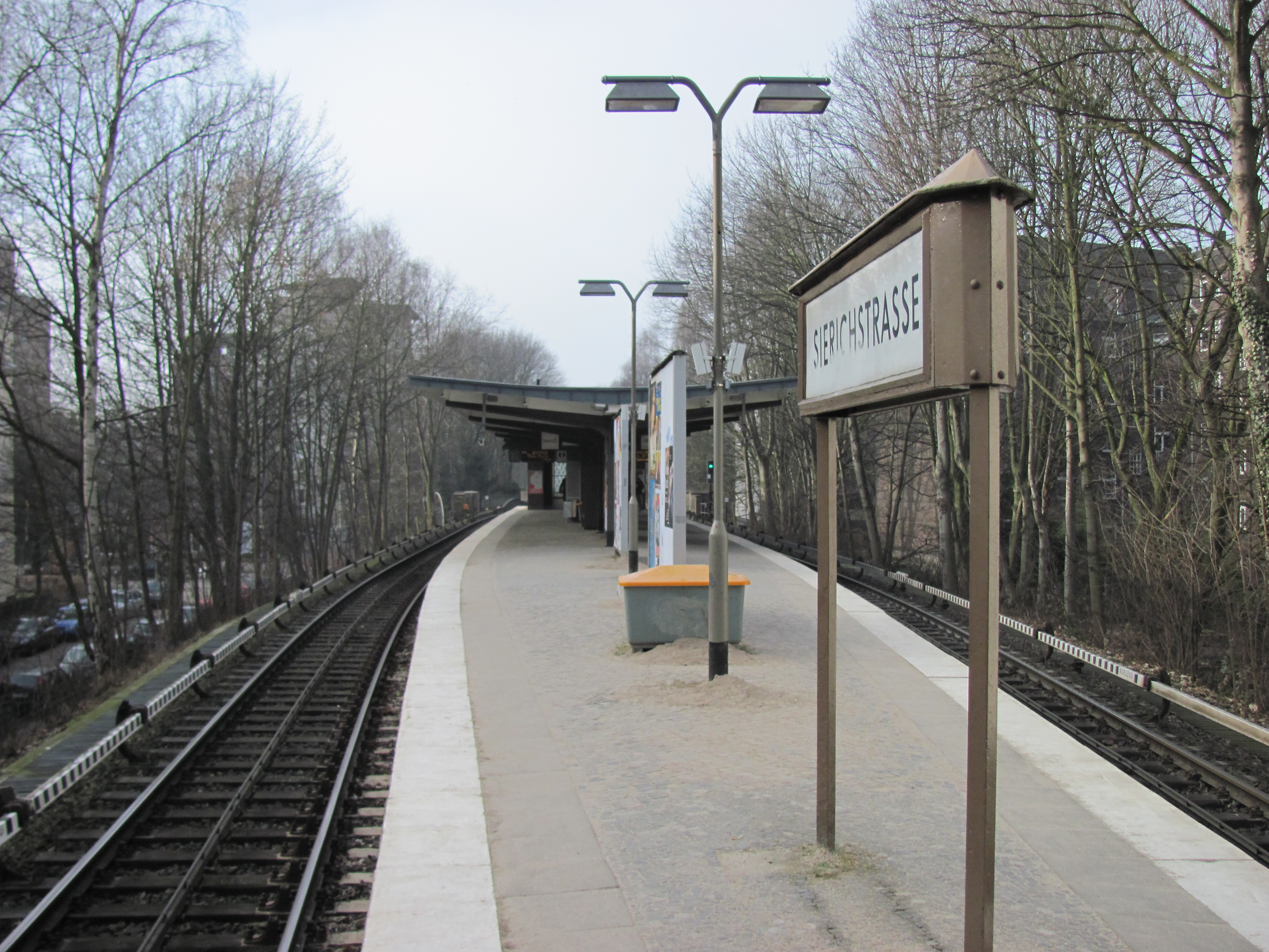 U-Bahn station Sierichstraße in Hamburg-Winterhude, Germany, January 2011